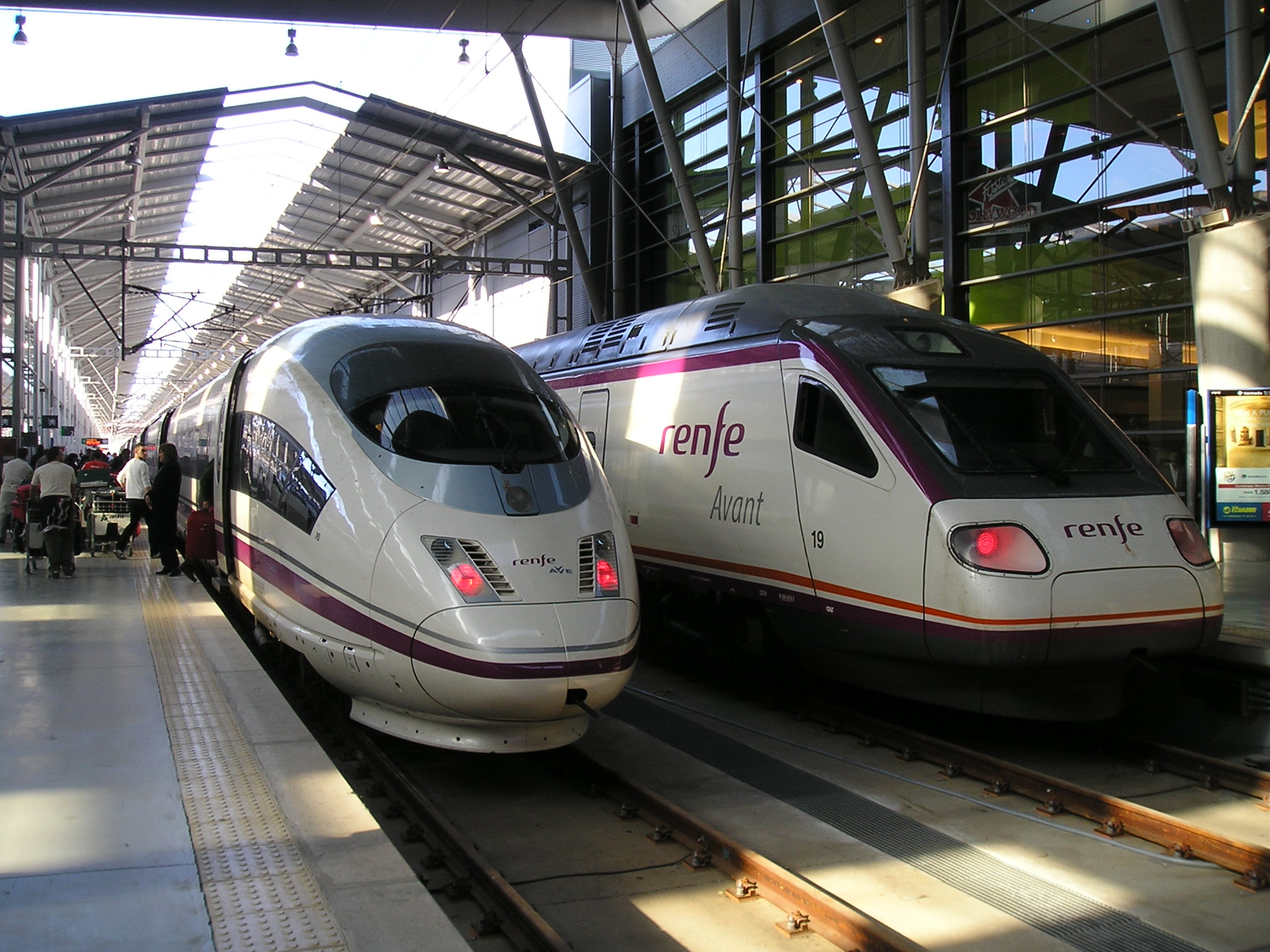 Spanish high speed trains AVE Class 103 and Avant Class 104, Malaga, Maria Zambrano station